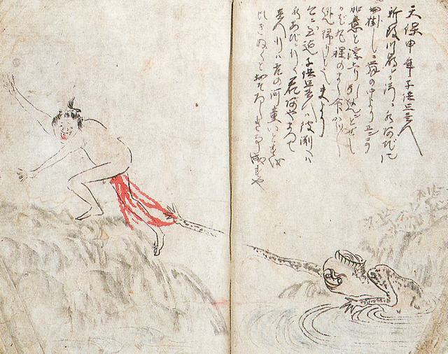 Enkō (猿猴, the kappa of Shikoku and western Honshū) from the "Ehon atsumegusa" (絵本集艸, Japanese picture)